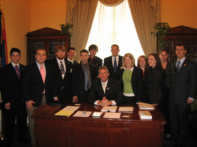 Arizona College Republicans from Northern Arizona University, Arizona State University, and the University of Arizona visited with Congressman Renzi.